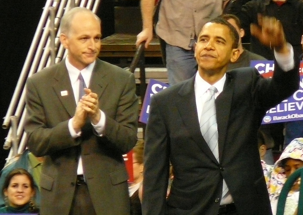 Congressman Adam Smith and Senator Barack Obama at a campaign rally at Seattle's Key Arena, 8 Feb 2008. This was the day before the Washington state presidential caucuses.